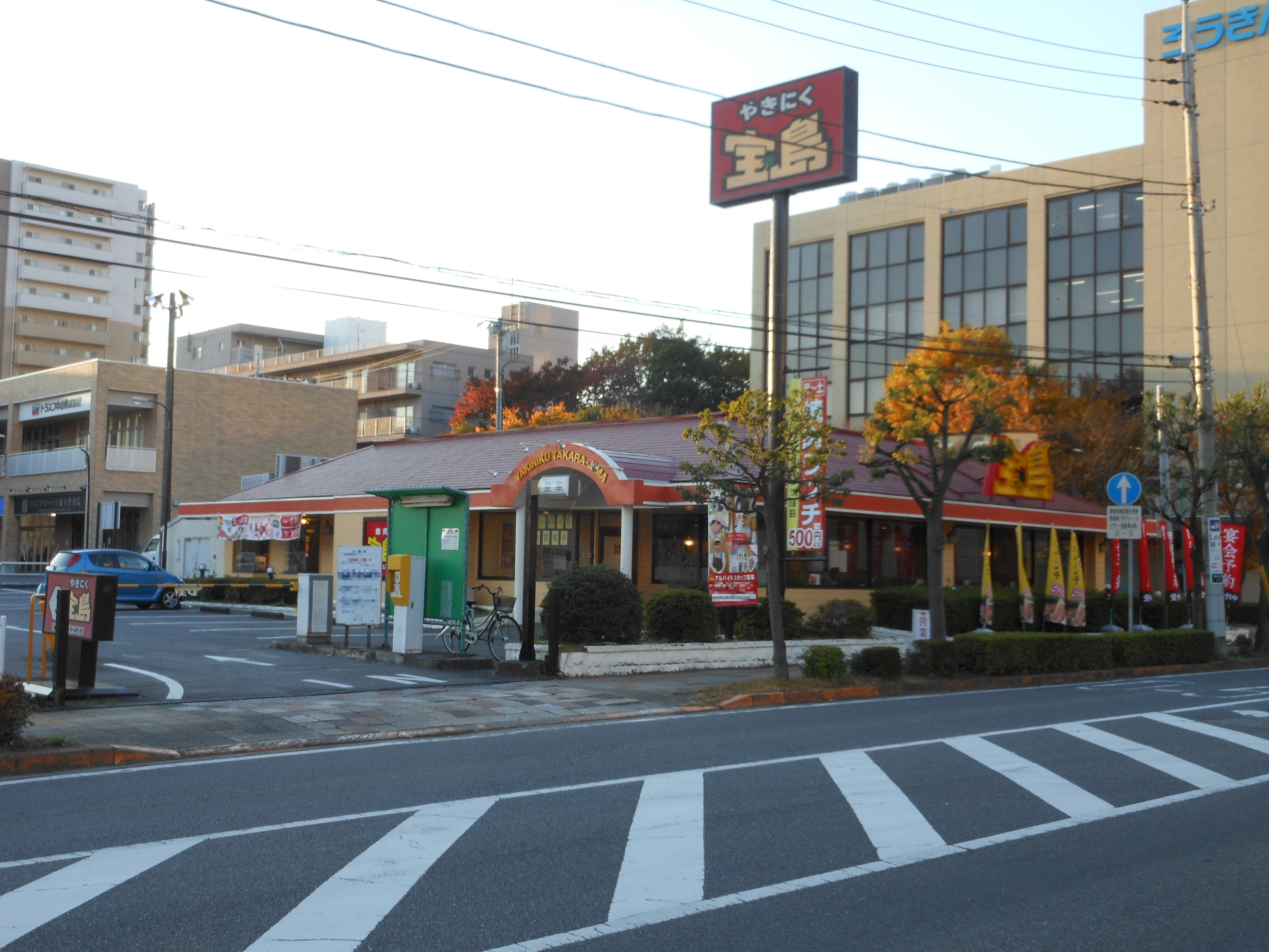 This is the Yakiniku Takarajima Gakuen Shop, which is a Yakiniku shop in Tsukuba, Ibaraki, Japan.